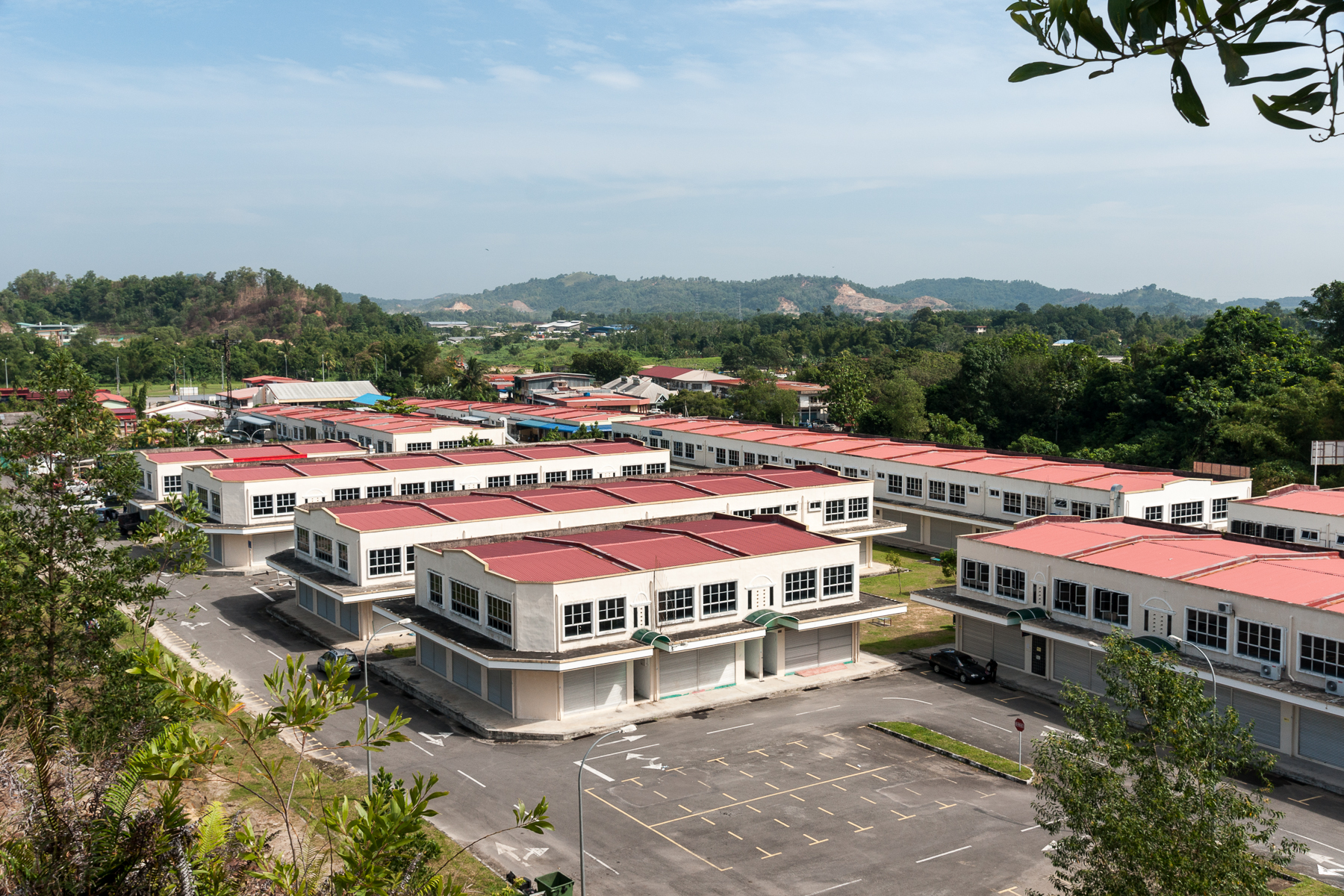 Telipok, Sabah: Ria Park, a new Quarter behind the old town center)